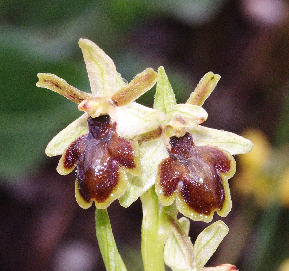 Ophrys × apicula, Tauberland, Germany